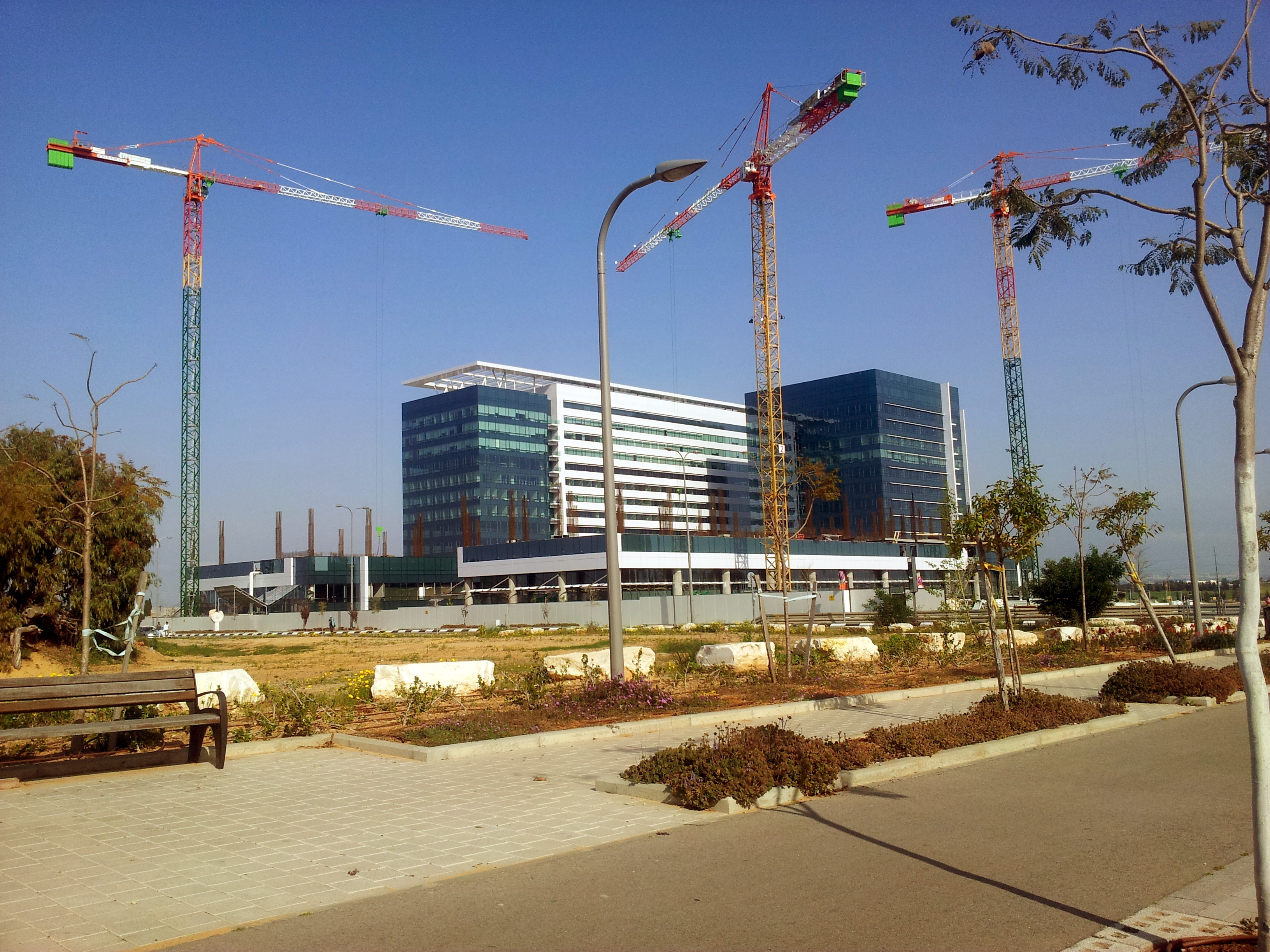 Holon Azrieli High-tech center. Buildings 1 and 2 are complete. Buildings 3 and 4 are being constructed.